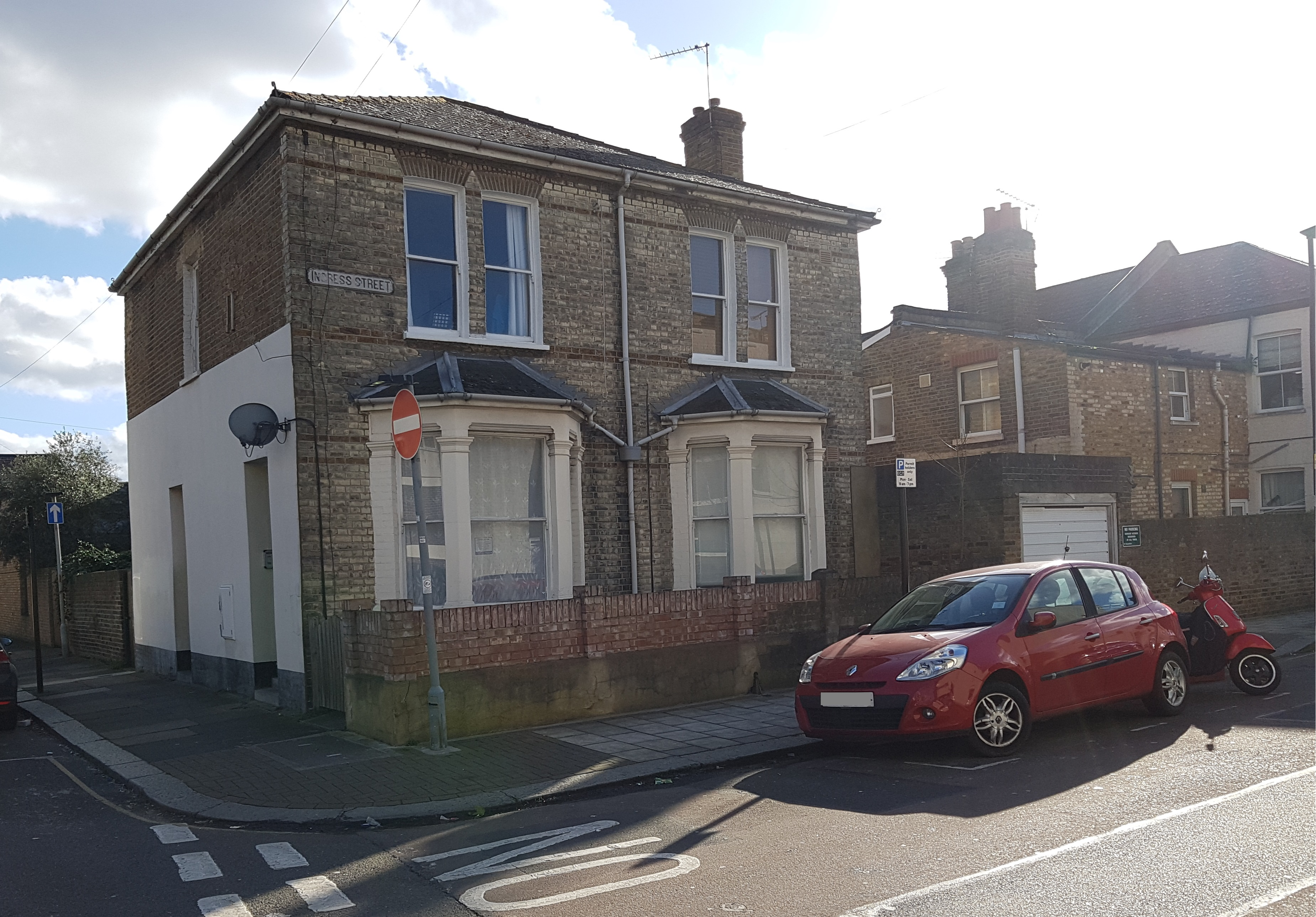 Sulhamstead Villa